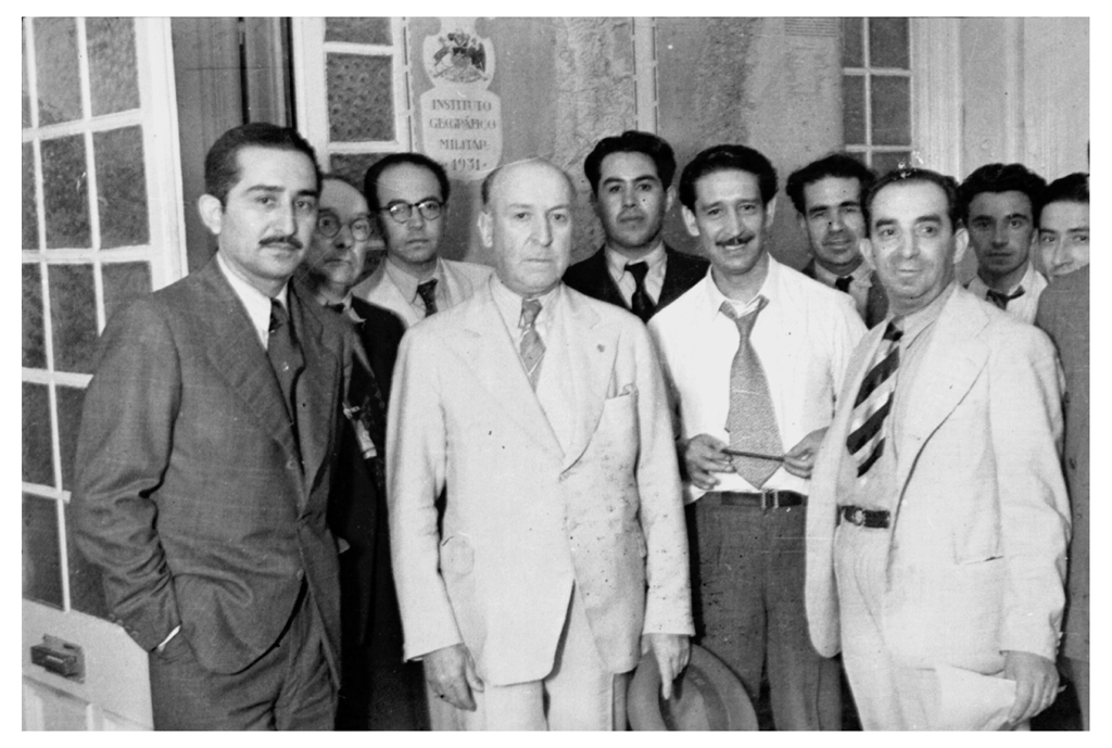 A group picture of the Chilean Socialist Party in 1940, with Marmaduke Grove in the center